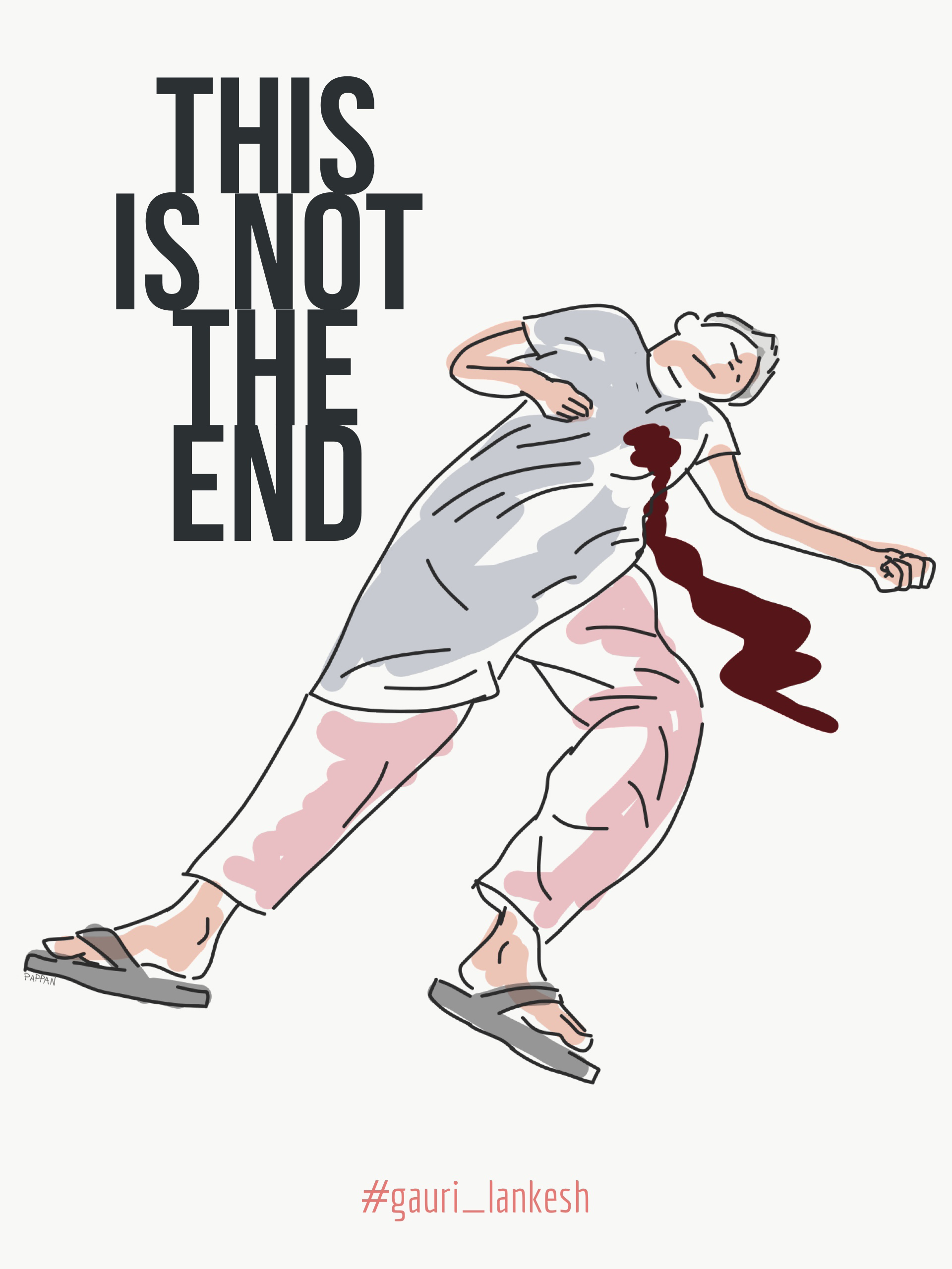 Gouri Lankesh, 55, editor of Kannada tabloid 'Gauri Lankesh Patrike', was killed last night by Hindutwa assailants